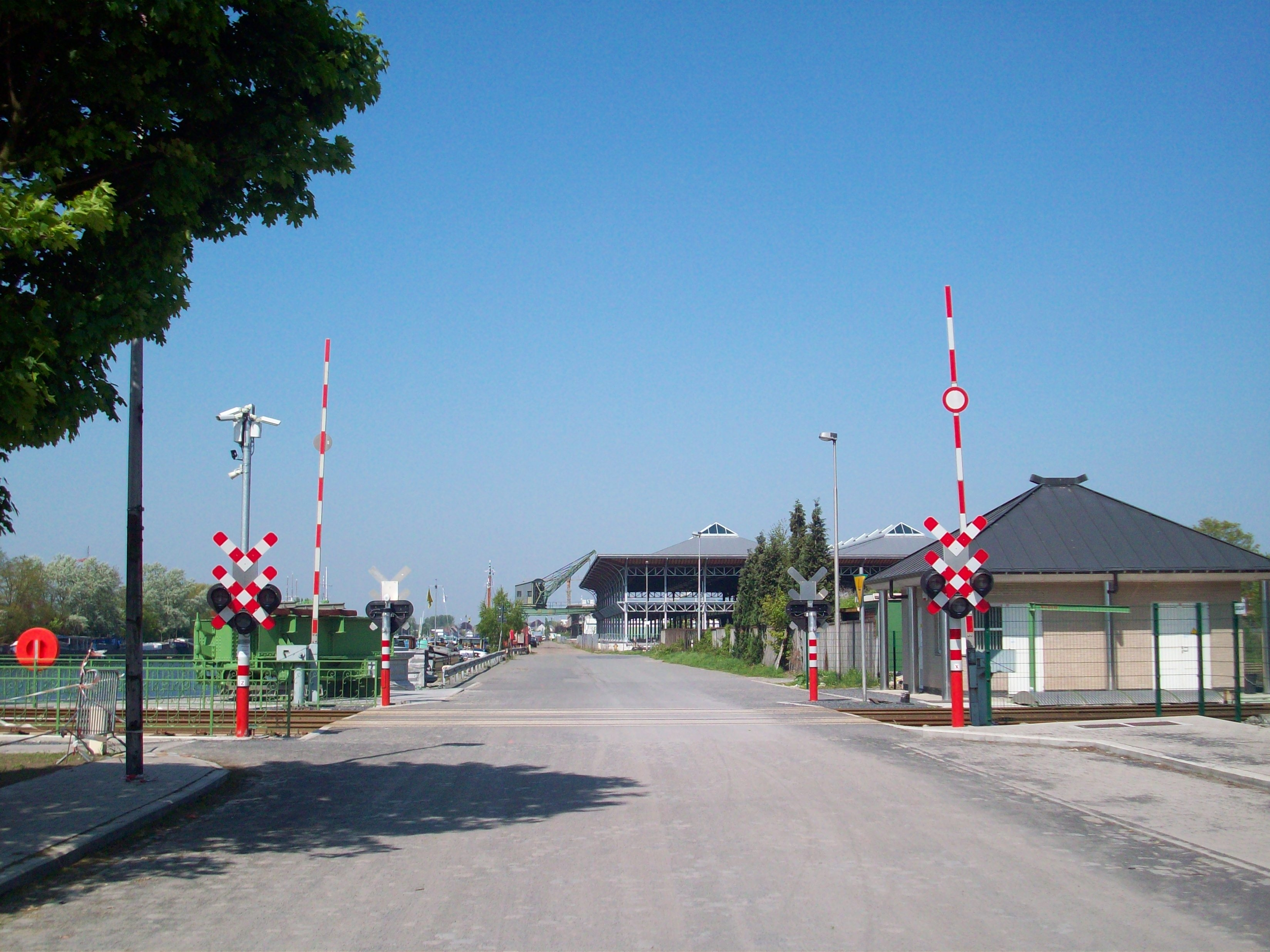 Belgian level crossing on line 58 near the Wiedauwkaaibrug in Ghent.